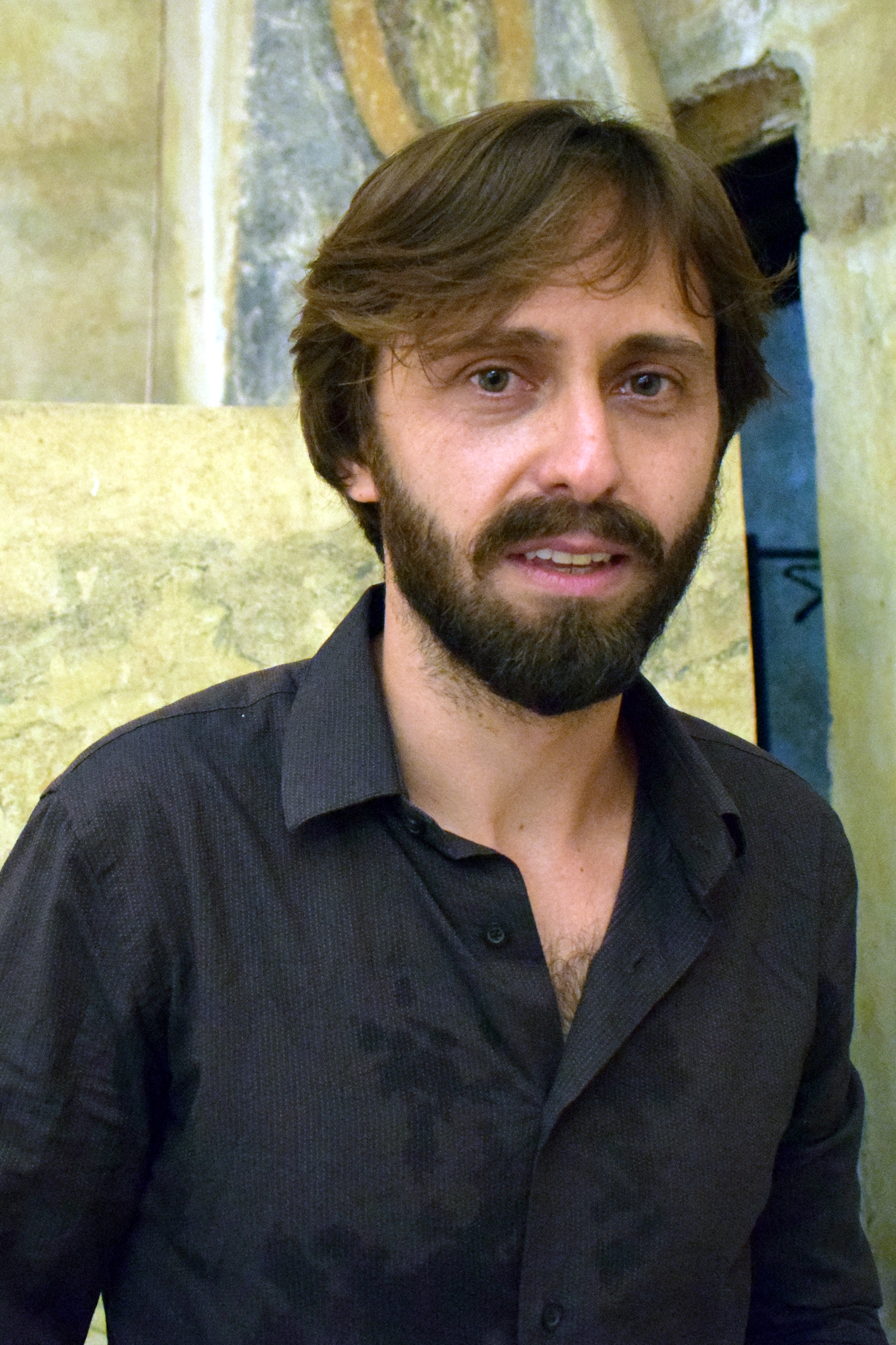 Robert Bisha at Ohrid Summer Festival 2018